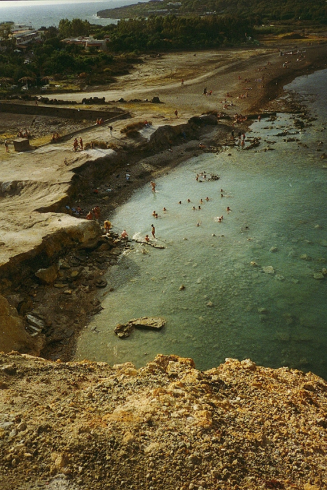 The dead field on the island of Vulcano in Italy.